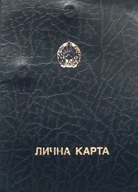 Macedonian identity card; identity card of the Republic of Macedonia In use from independence until 2007.